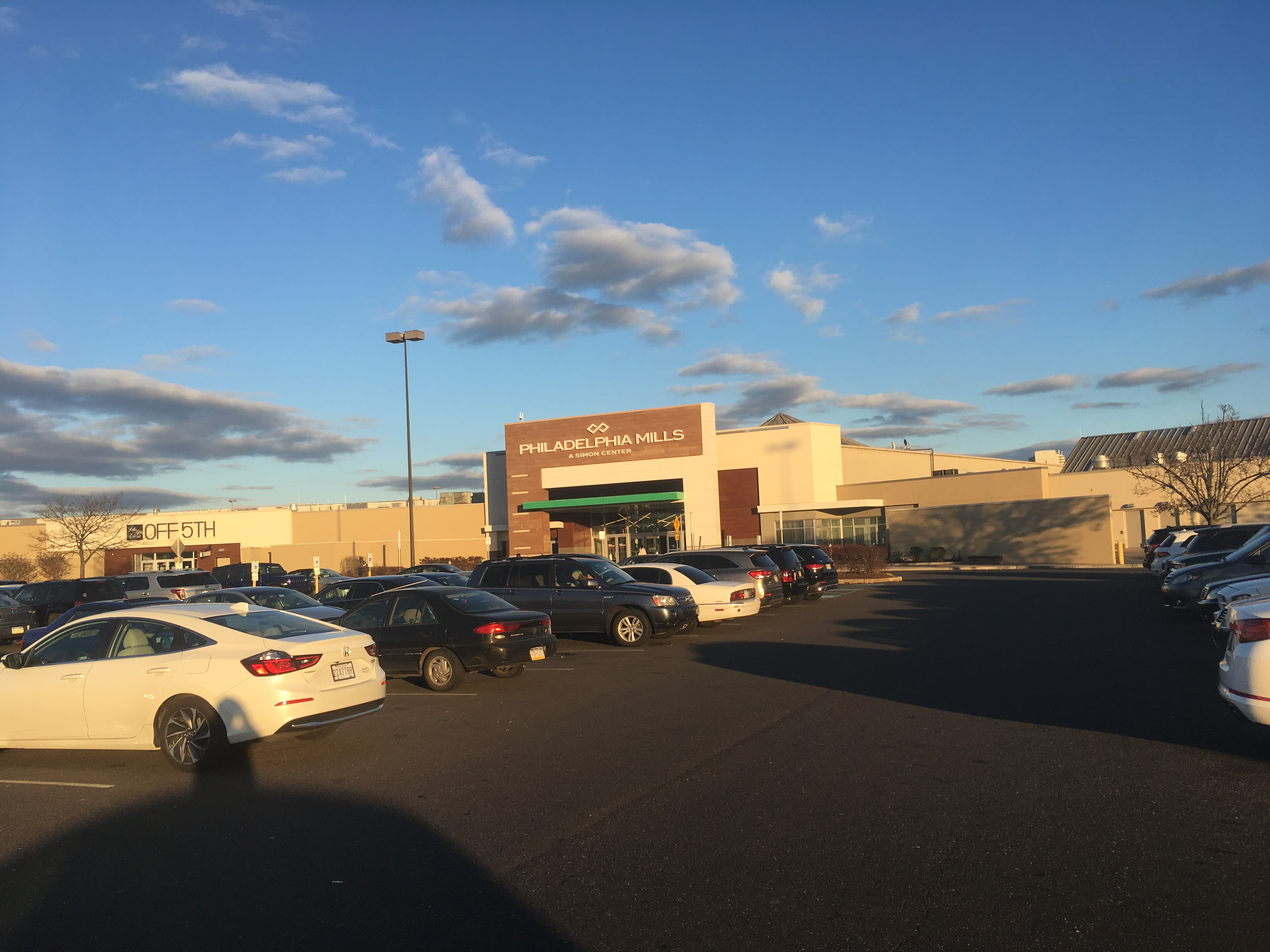 The west entrance to the Philadelphia Mills shopping mall in Philadelphia, Pennsylvania near Burlington